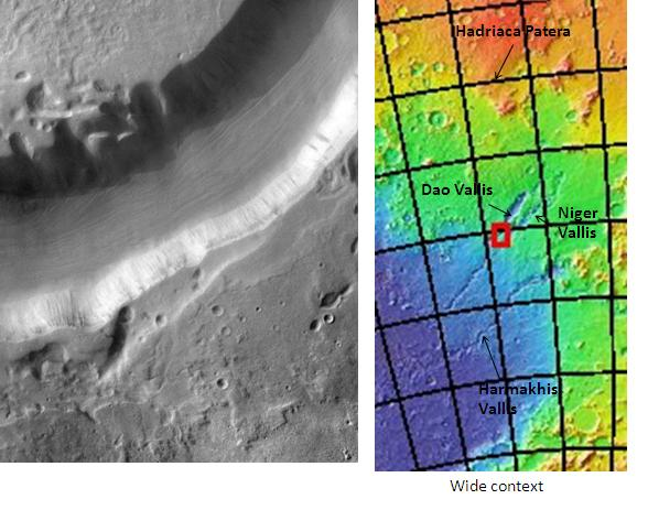 Dao Vallis, as seen by themis. The location is 35.4 degrees south latitude and 90.9 degrees east longitude. Picture taken with Mars Odyssey's THEMIS. Photo credit NASA/JPL/ASU.